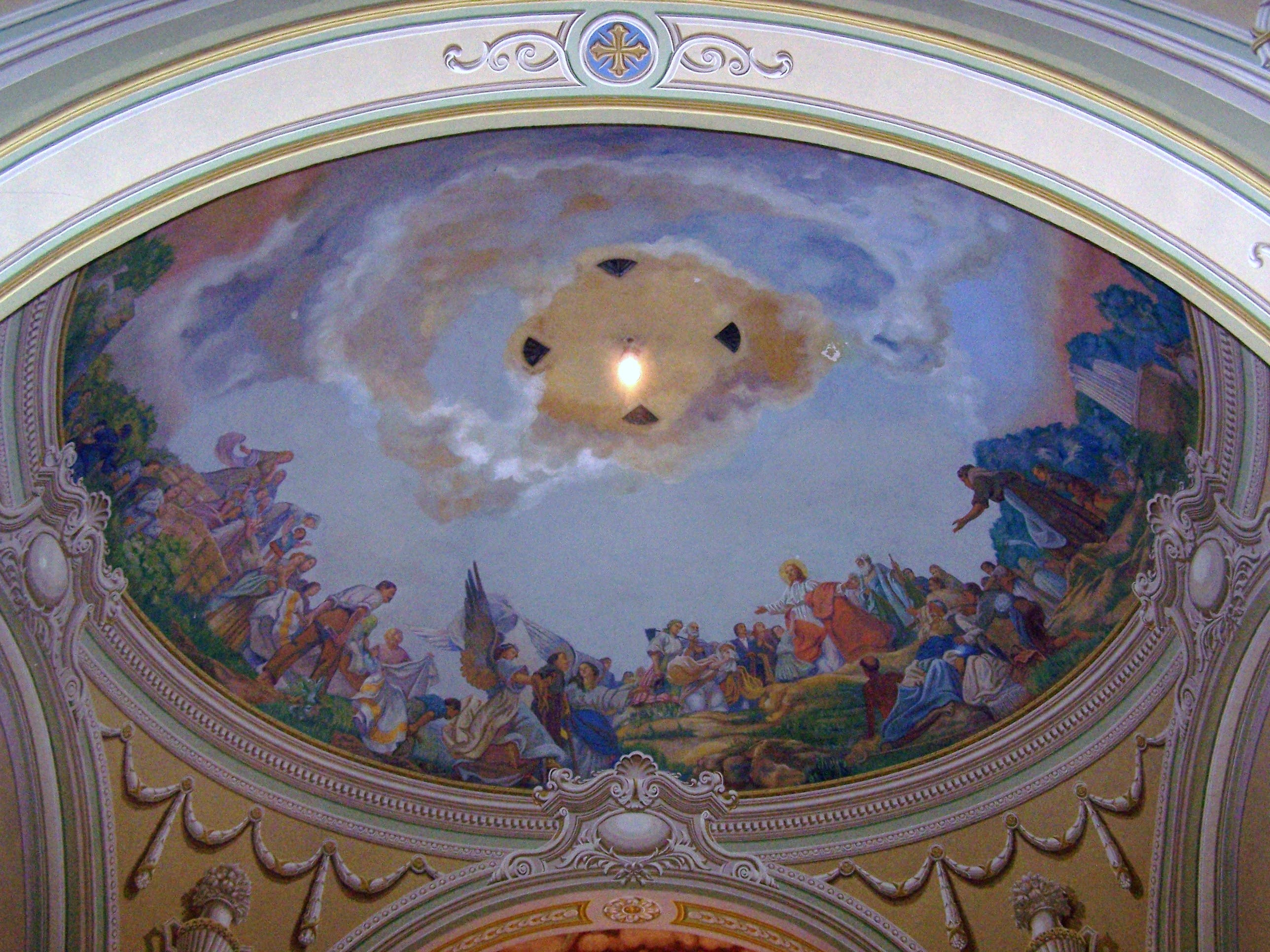 Catholic church of Rákoscsaba, Budapest (Hungary)